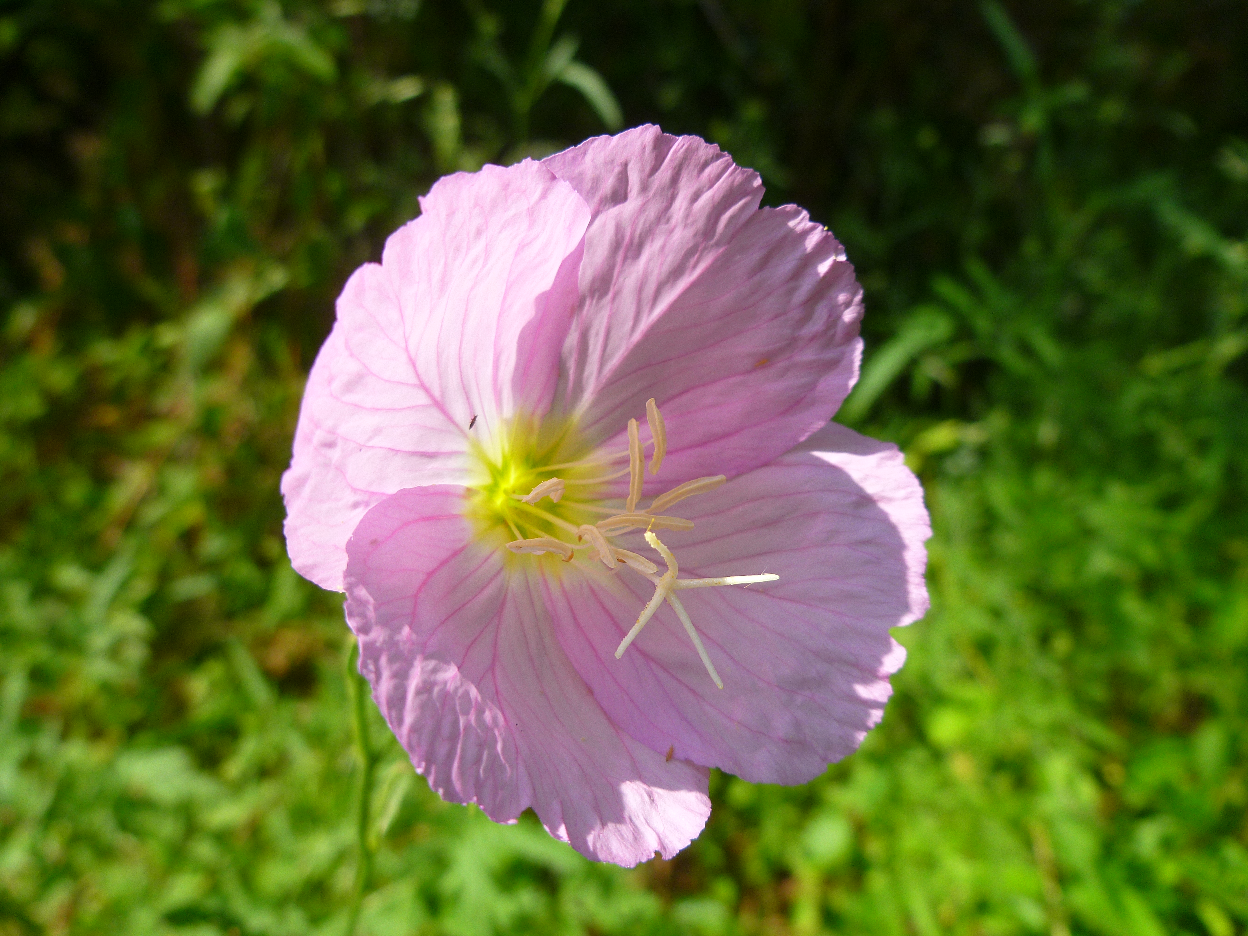 Little Bug